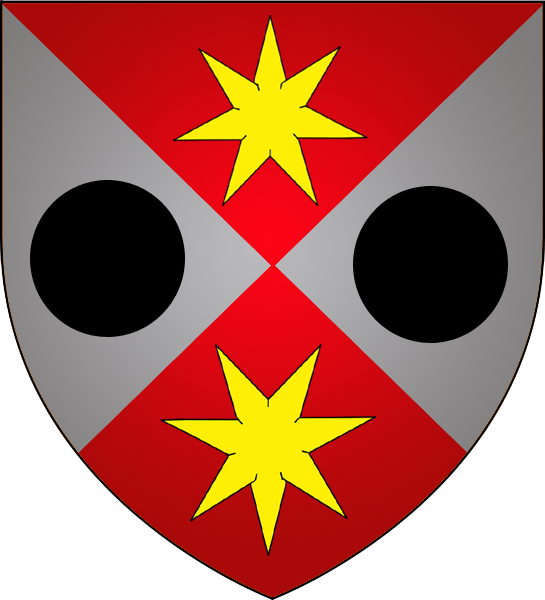 Coat of arms of the municipality of Erpeldange, Luxembourg